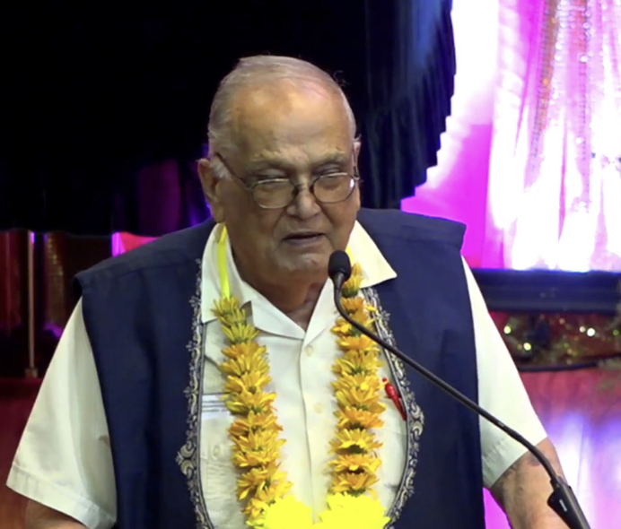 Sat Maharaj